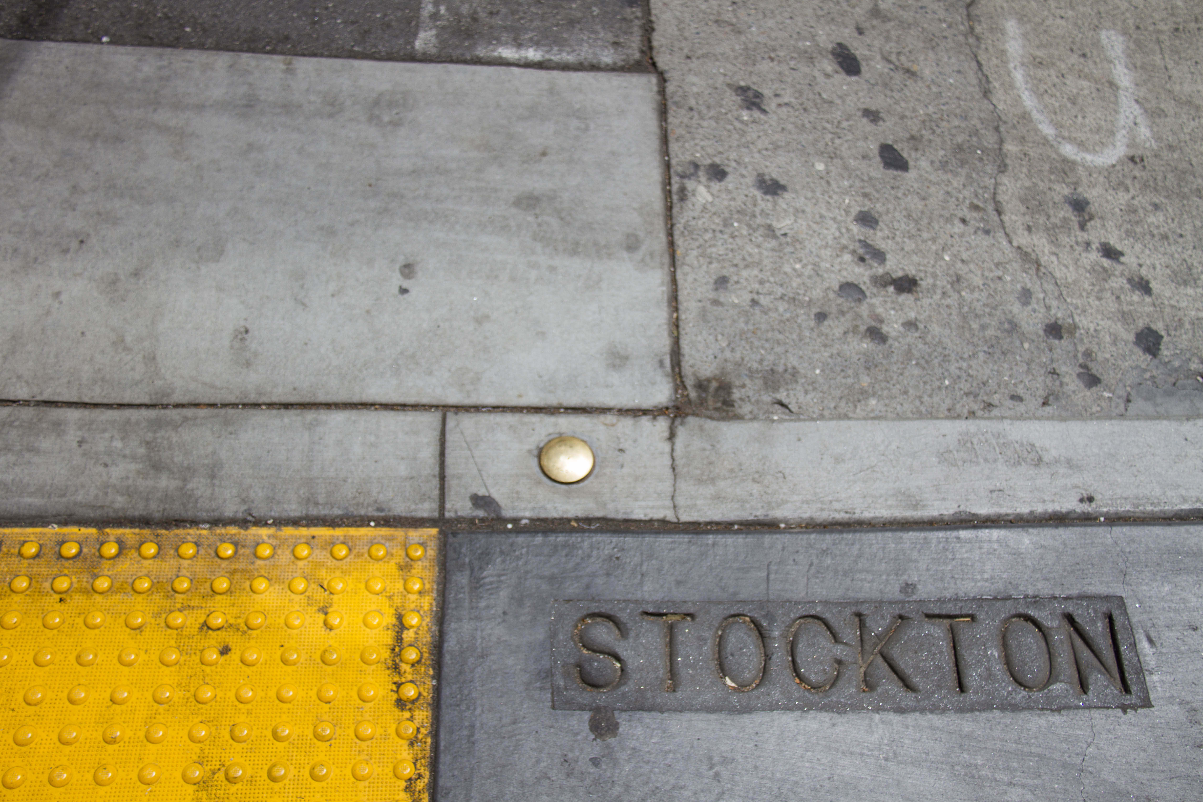 The name of Stockton street mold on the sidewalk in San Francisco, United States